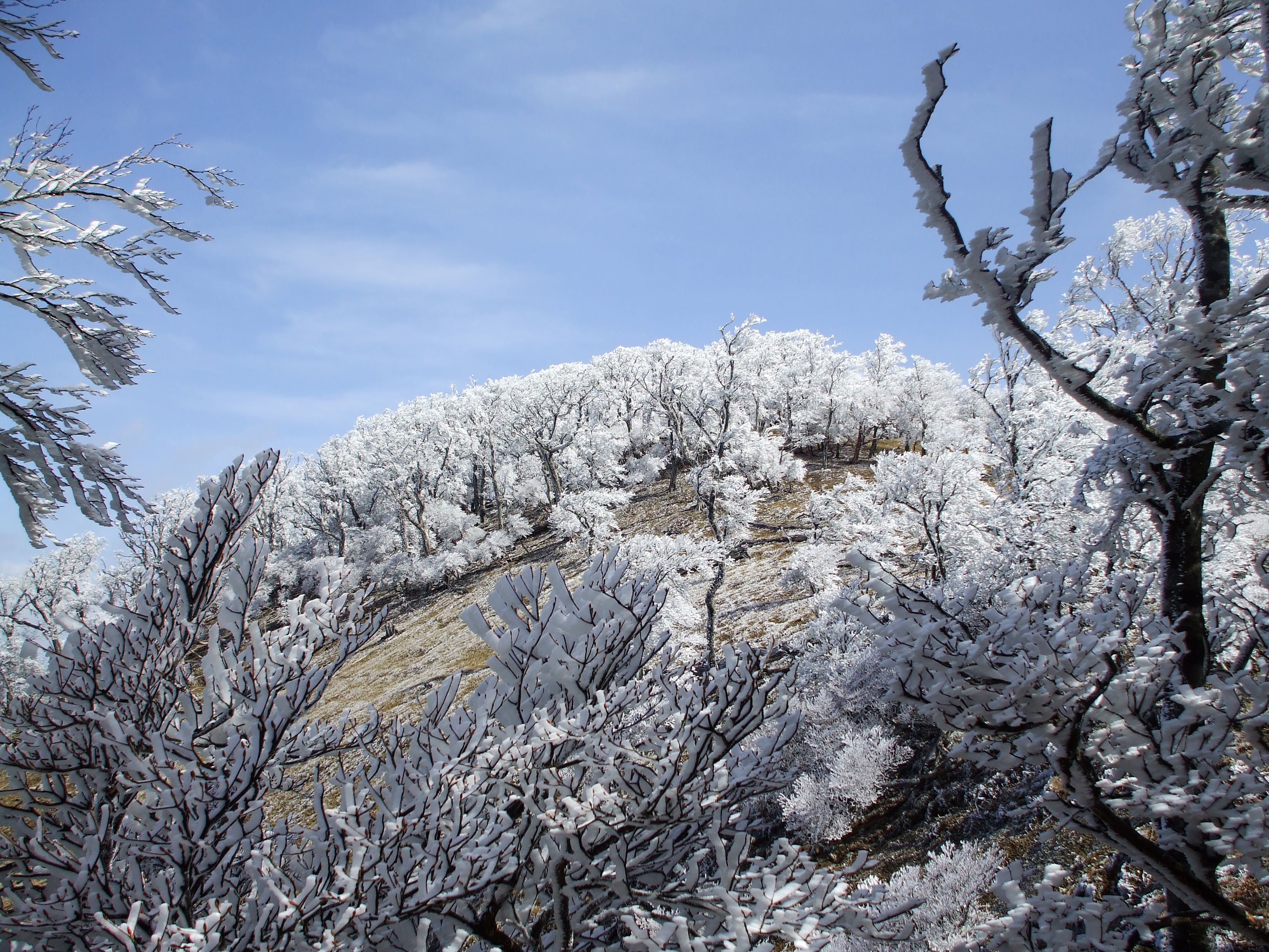 Hinokidukaokumine seen from the west, in Daiko Mountains, Honshu, Japan.